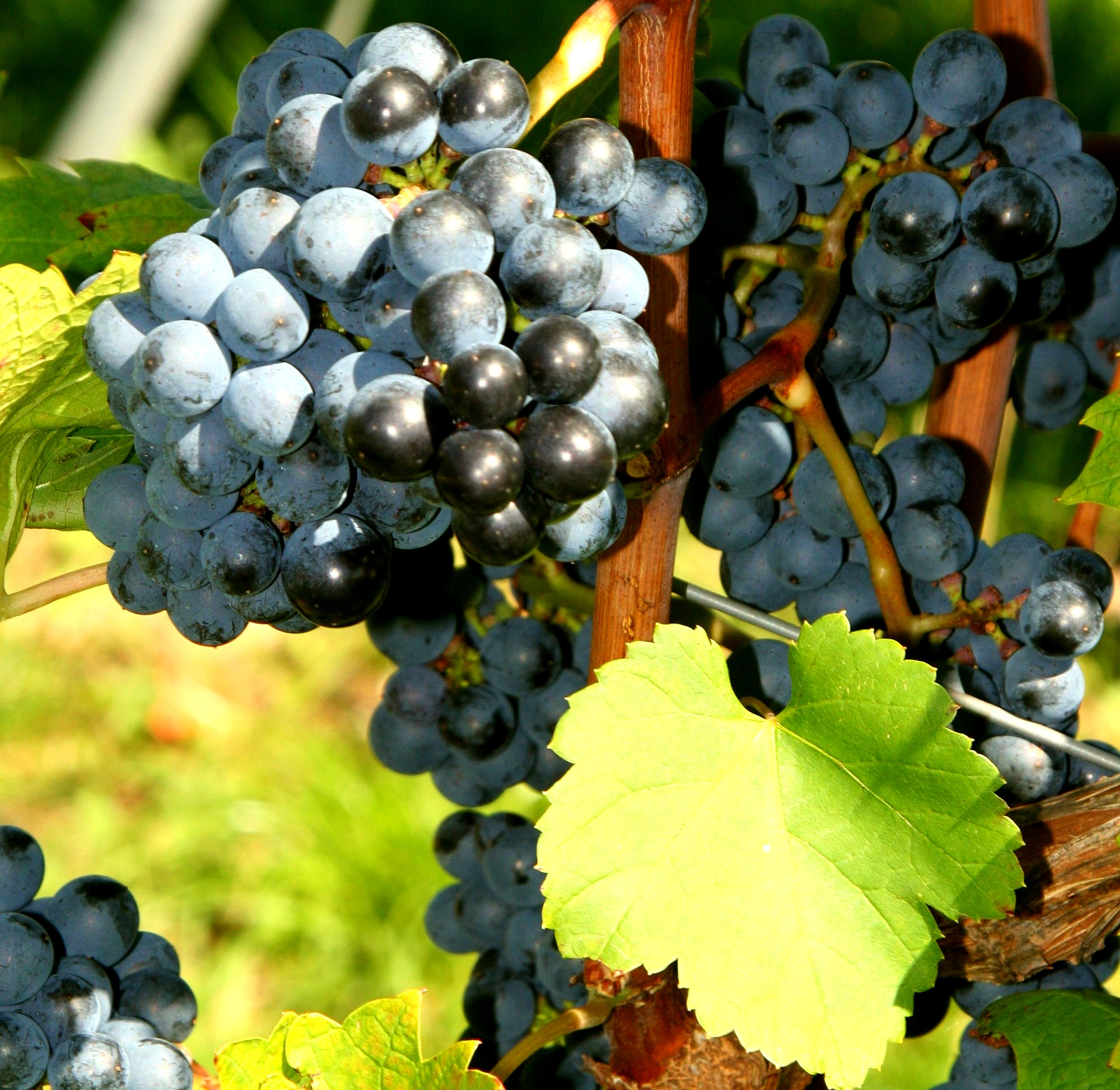 Grapes and leaves of the grape variety Cabernet Cubin, photographed at the viticulture trail on the Schemelsberg hill in Weinsberg